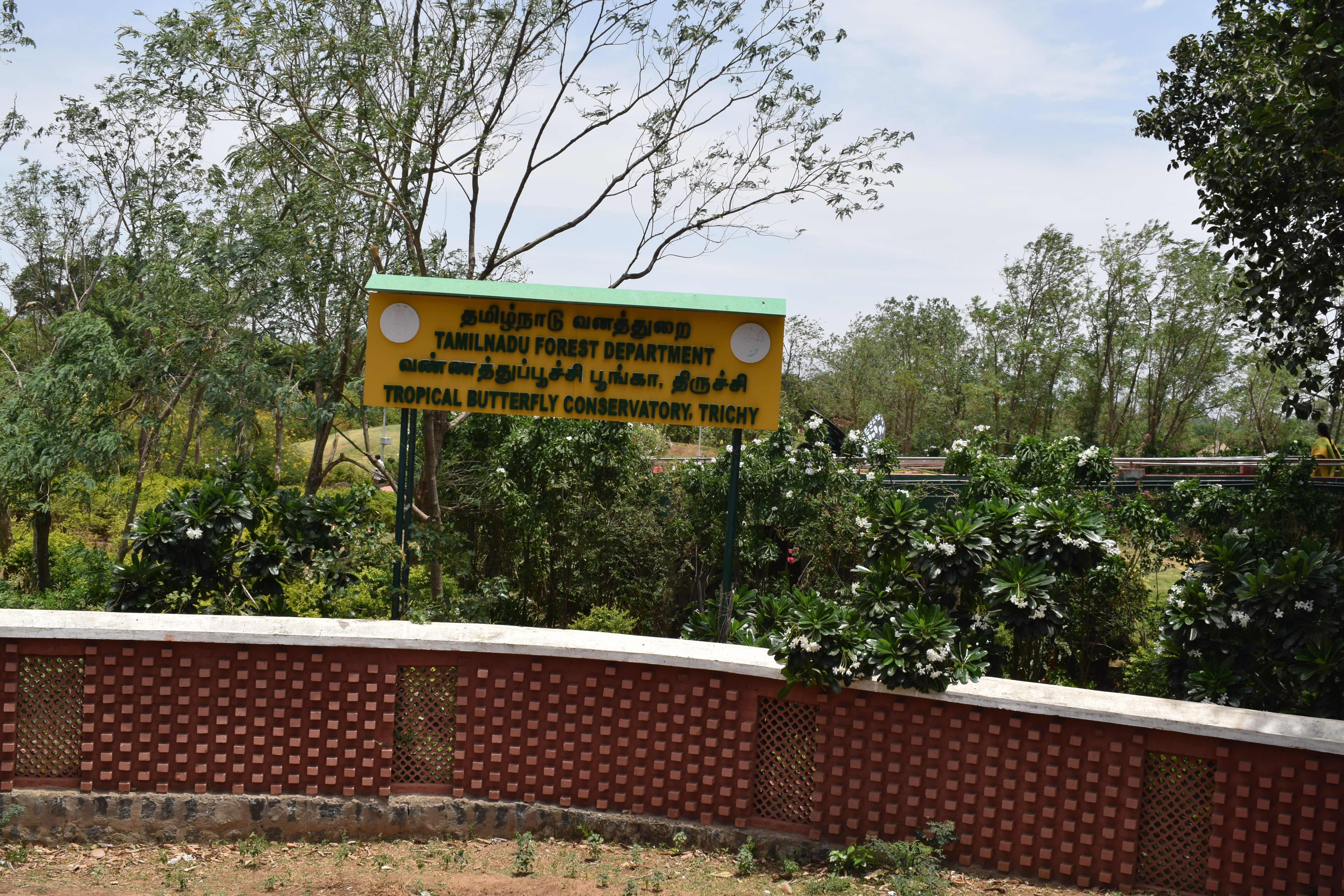 Butterfly park trichy entrance